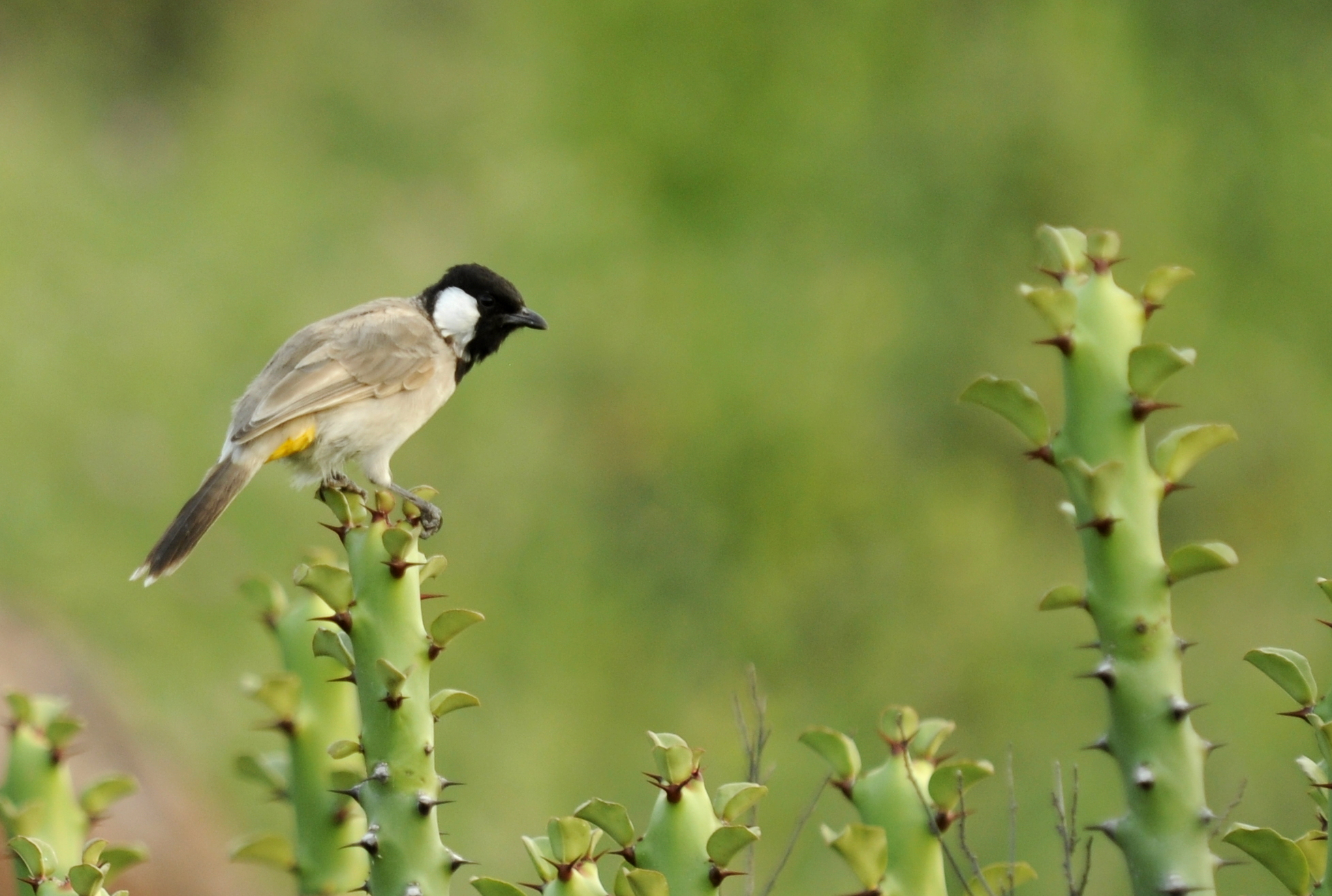 White-eared Bulbul in Jodhpur, Rajasthan, India